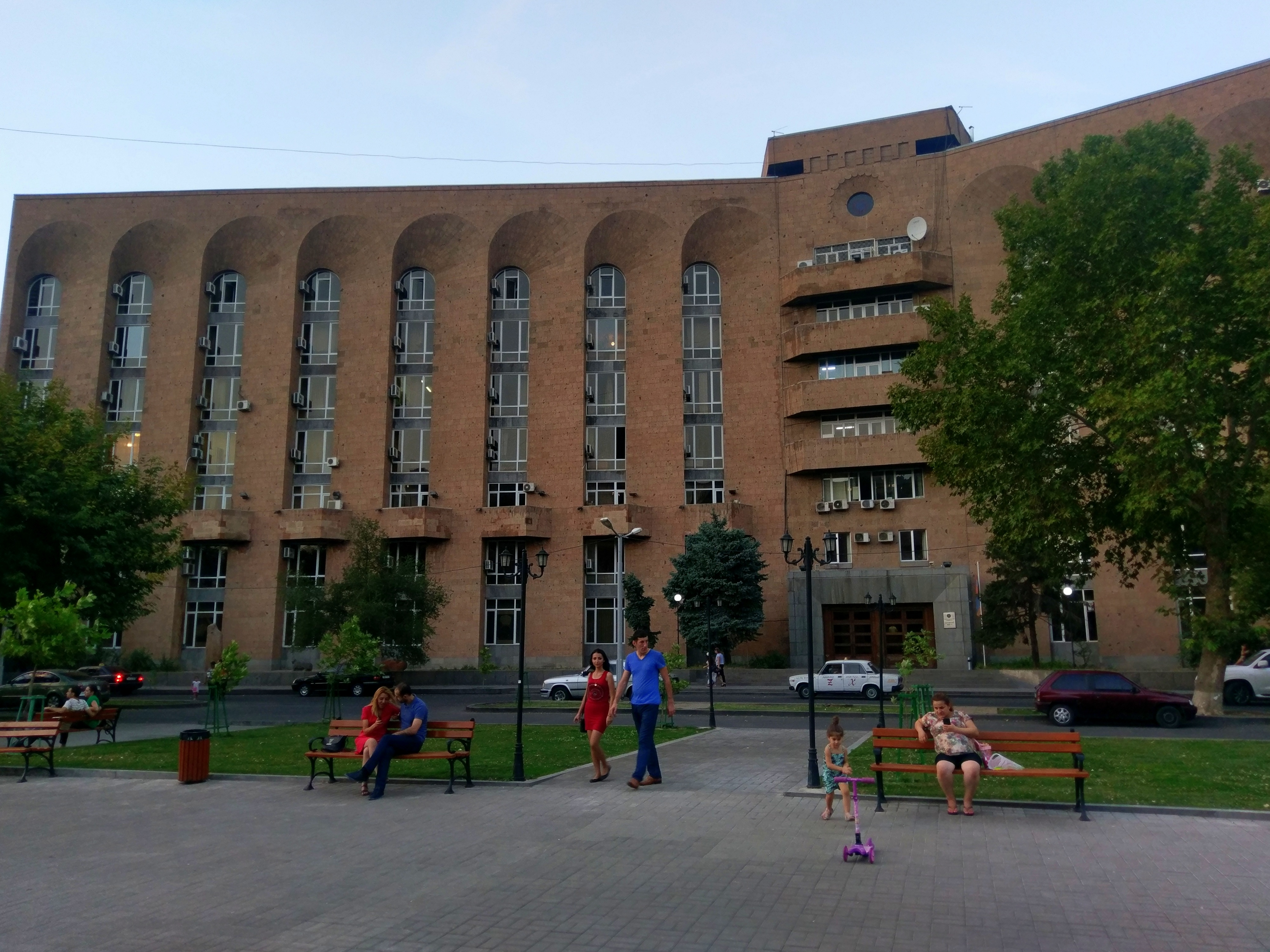 Aram street, government bld. no.3 Yerevan, Armenia (2016)